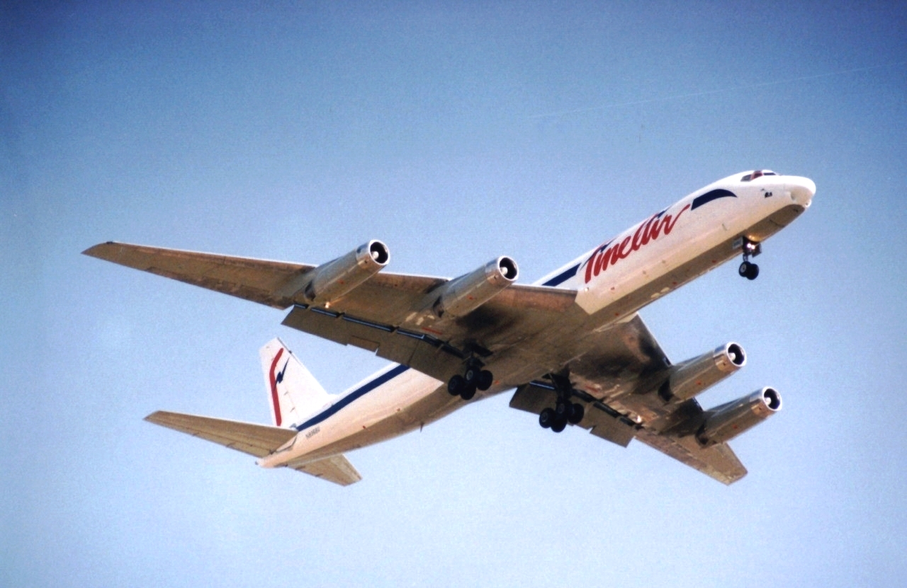 Arrow DC8-62F N8968U